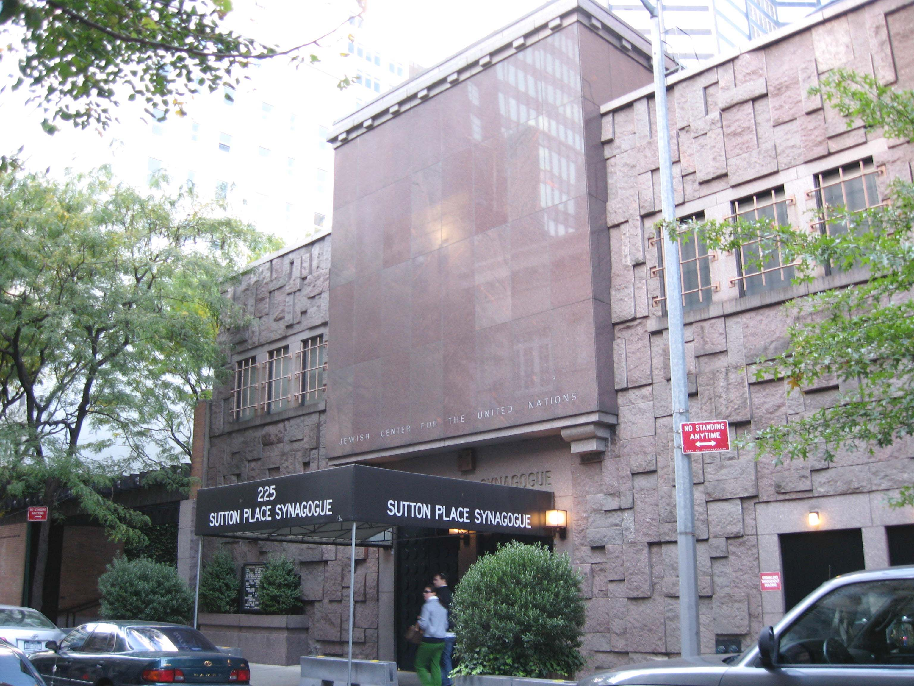 Looking northwest across East en:51st Street (Manhattan) at Sutton Place Synagogue / Jewish Center for the United Nations on a cloudy afternoon